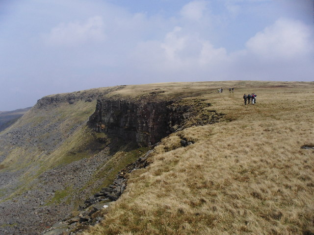 Hangingstone Scar on Mallerstang Edge Looking north along a fairly well defined informal path.